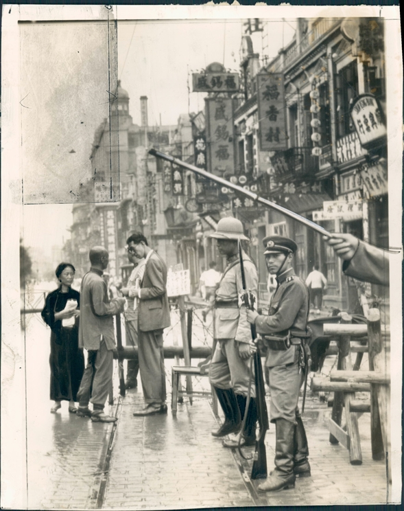 The inscription reads "This scene, made in quieter days at Tientsin, China, shows Japanese and French on guard at temporary barrier between their concessions. Today Japanese, blockading British and French concessions, cut the flow of goods and food to more than 100,000 people in the area. Safeguarding United States interests is the job of John K. Caldwell (inset), American consul general.", with a date Jun 14, 1939.